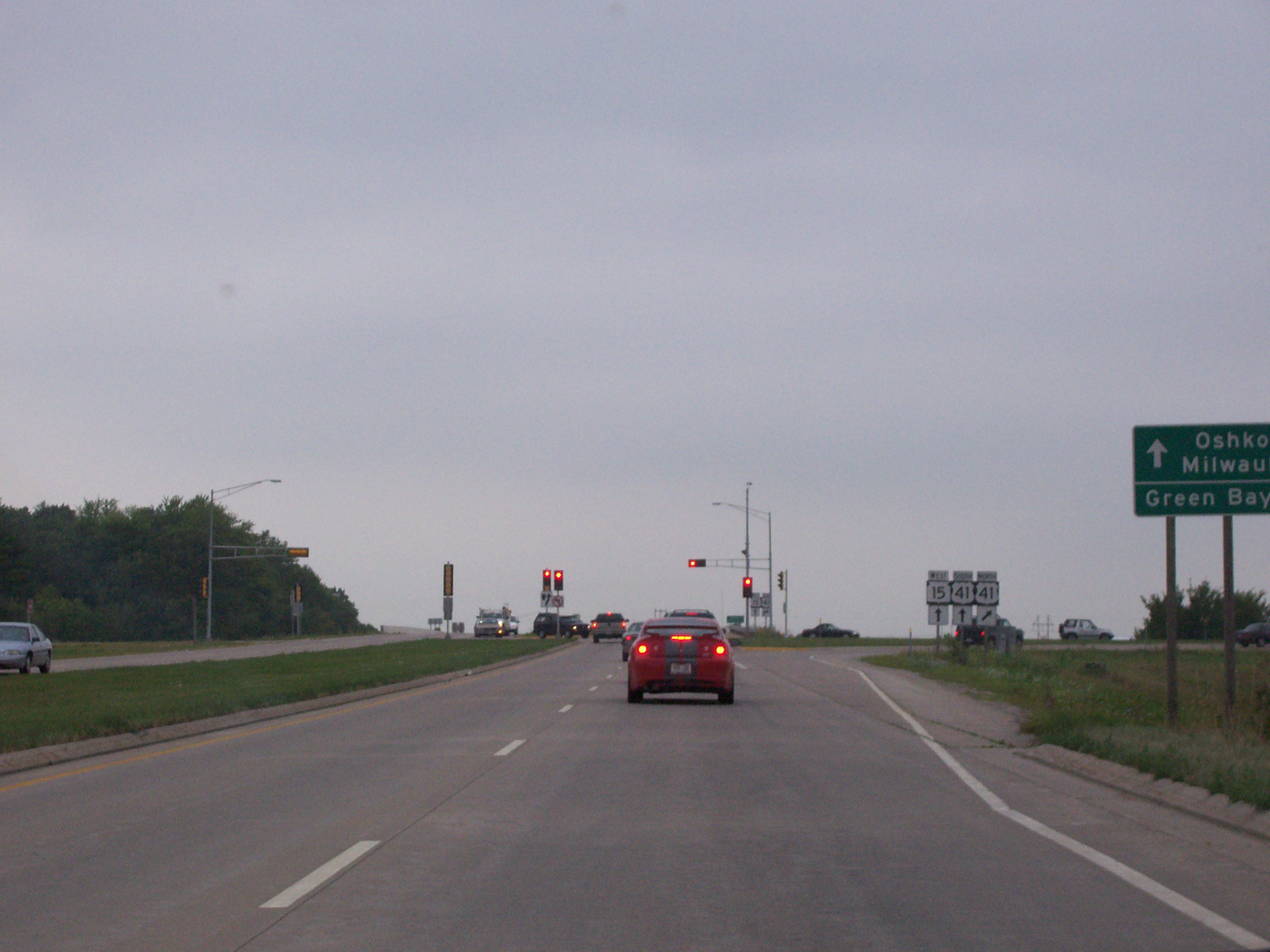 A picture of the eastern terminus of Highway 15 Wisconsin at U.S. Route 41 in Appleton, Wisconsin. This image was taken August 24, 2006 by User:Royalbroil Category:Images of Wisconsin highways